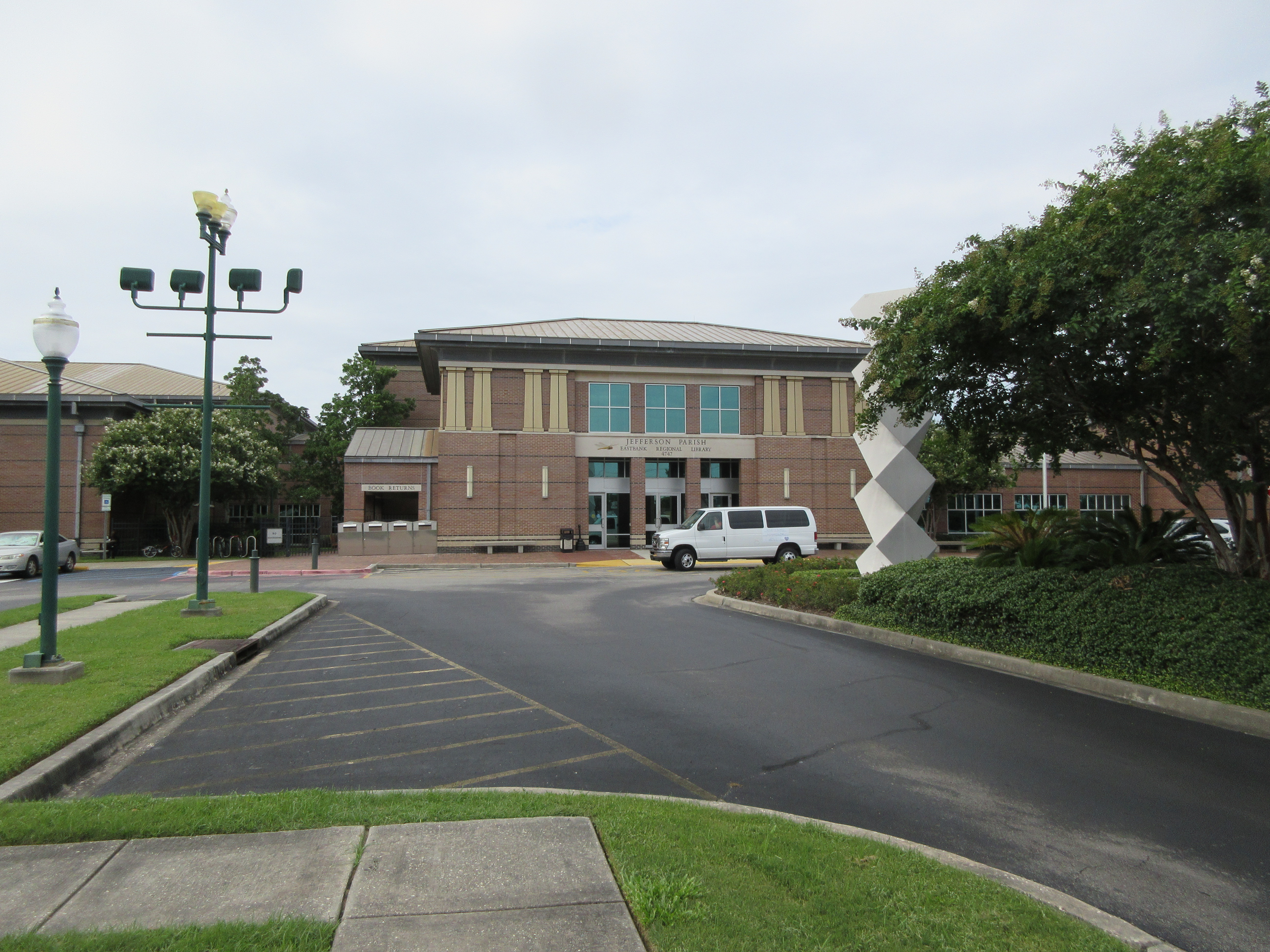 Jefferson Parish East Bank Regional Library, Metairie, Louisiana